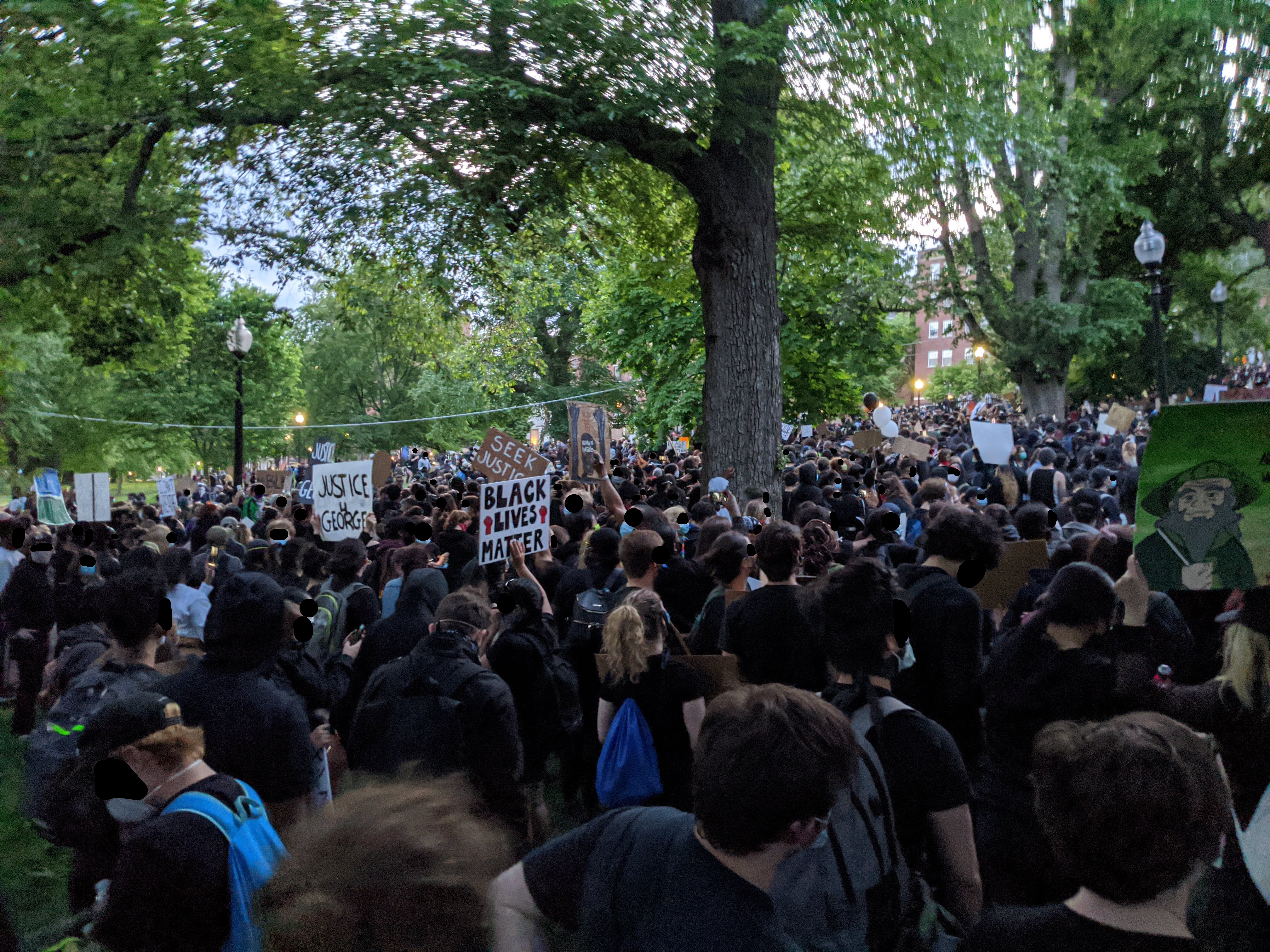 Protest against police brutality and the killing of George Floyd in Boston, MA. March from Nubian Square ends in Boston Common for a protest in front of the State House.